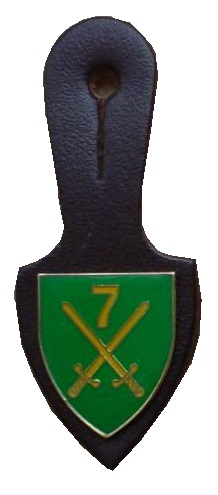 SADF 7 SA Infantry Division Pocket badge